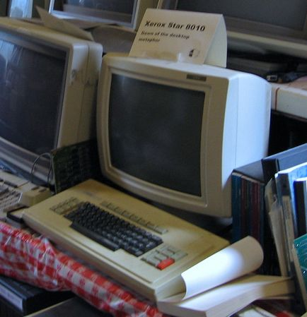 Old computers (including a Xerox Star).